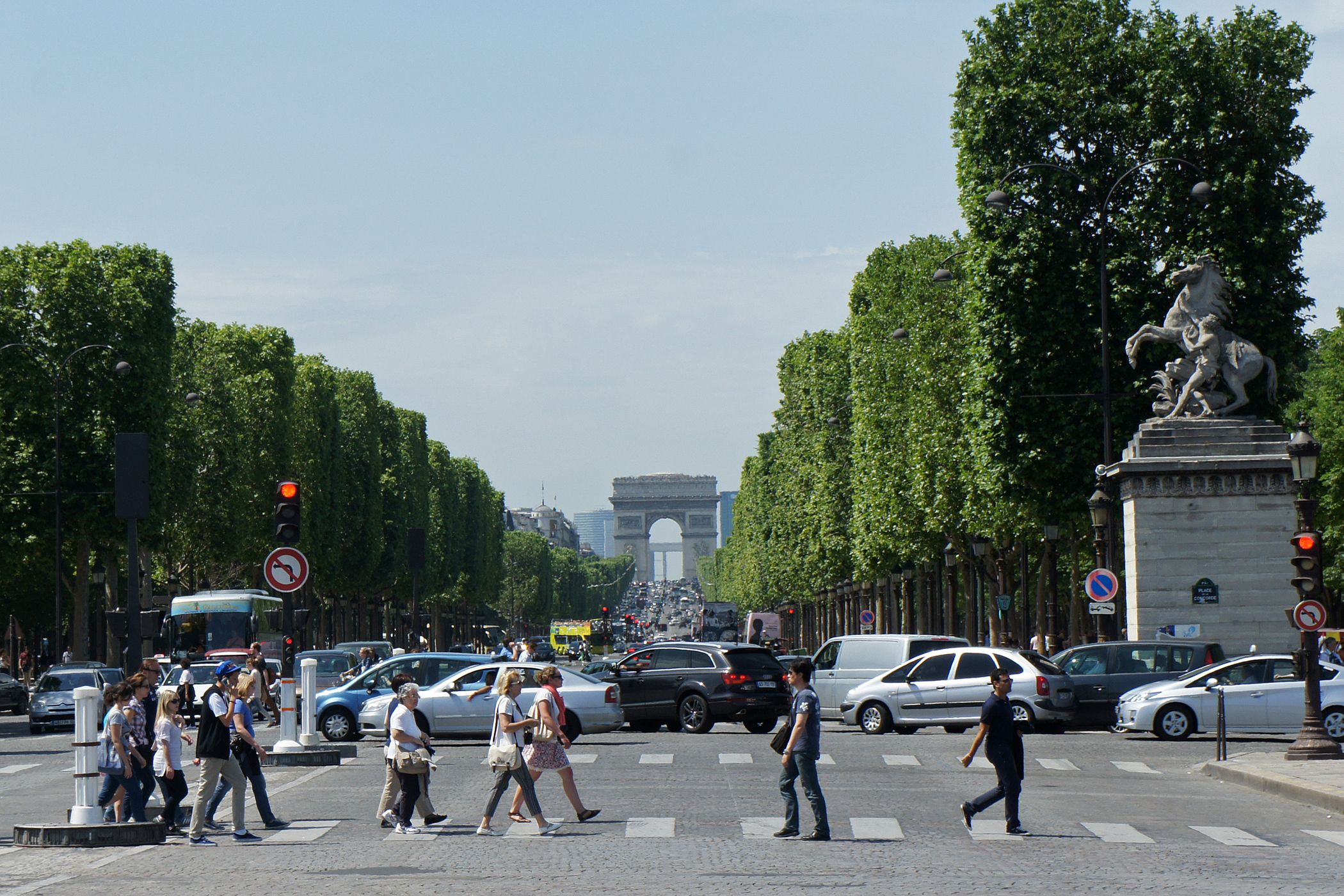 Arc de Triomphe at the end of the Avenue des Champs-Élysées taken from Place de la Concorde. Paris, France